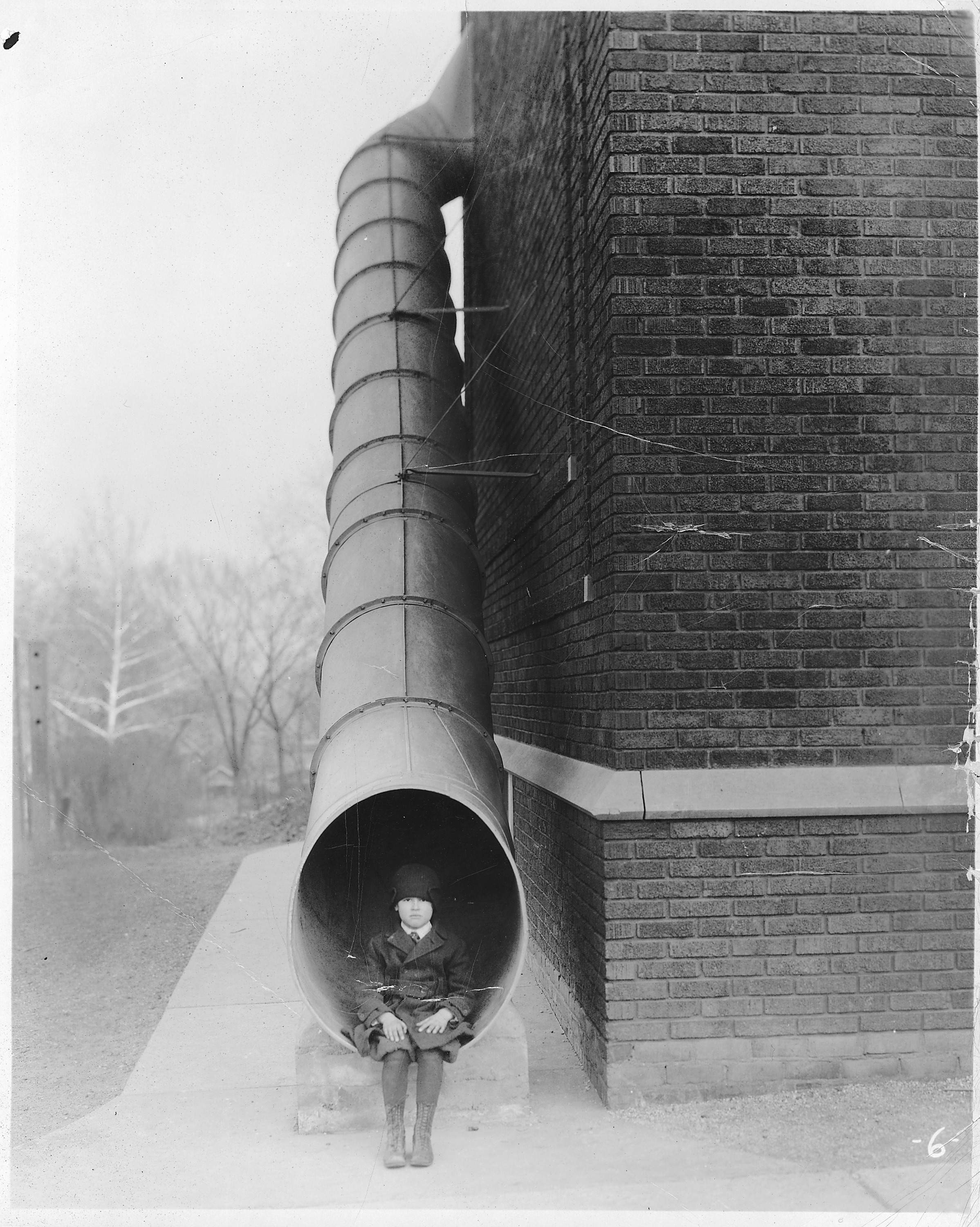 Scope and content: Drops from second story of brick building; small child is sitting in the end of the tube.